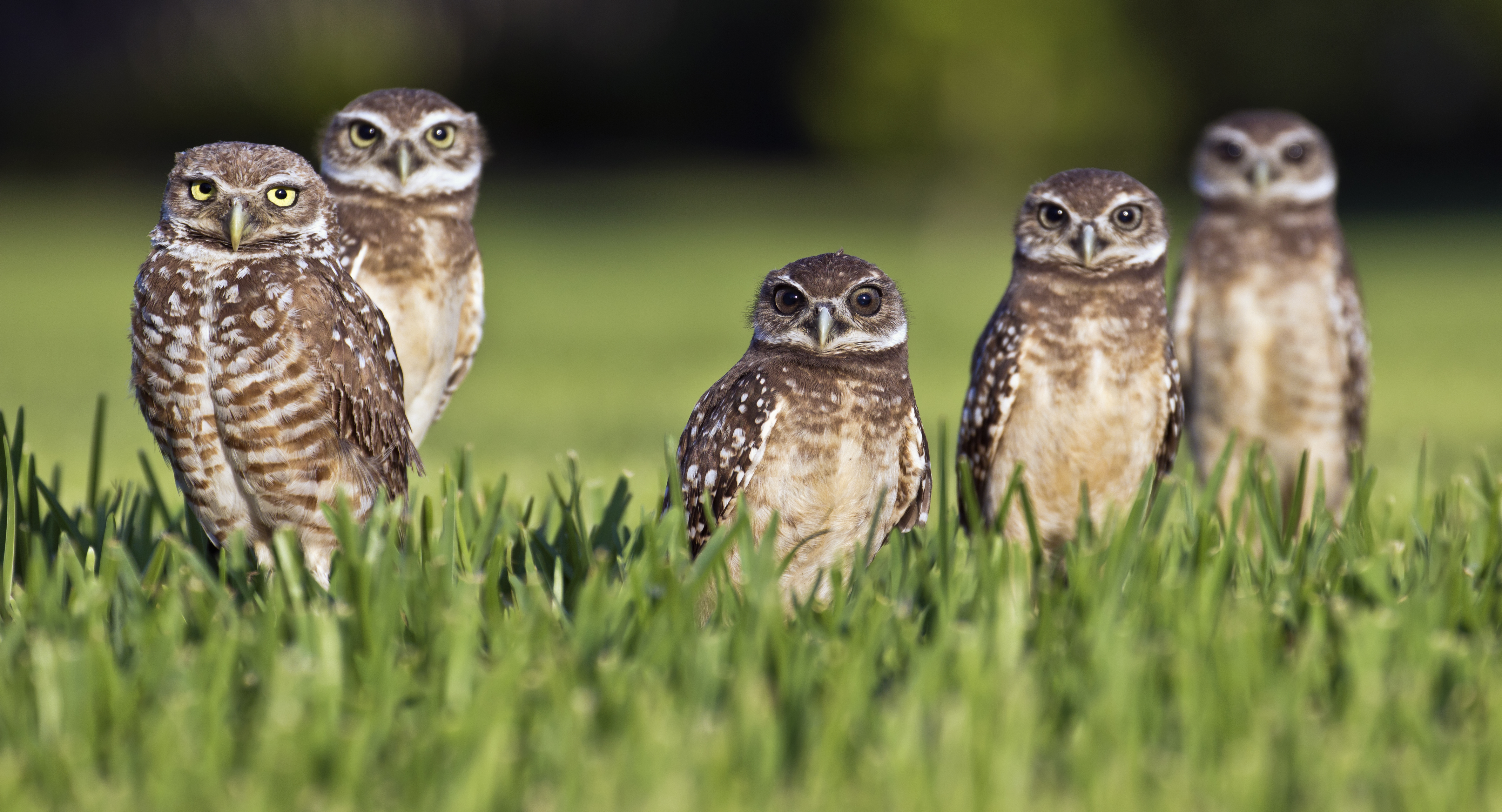 Five Burrowing Owls Athene cunicularia floridana, Florida